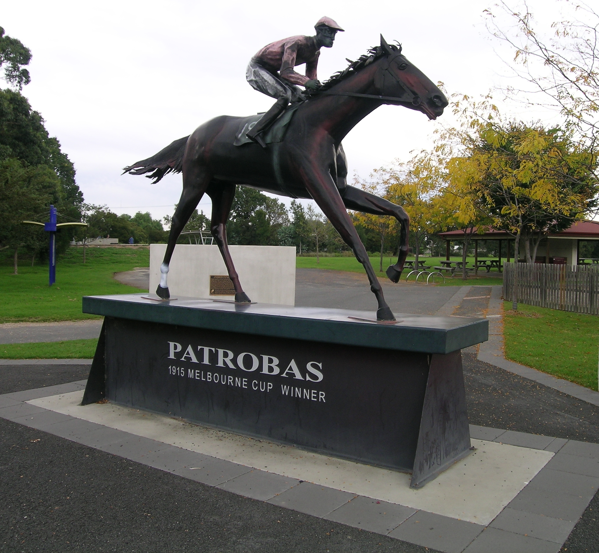 Statue of the Melbourne Cup winner, Patrobus at Rosedale, Victoria.